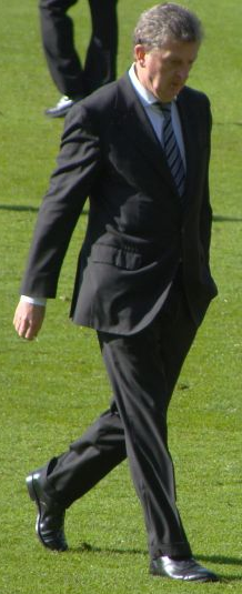 Roy Hodgson